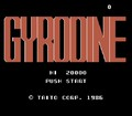 Title screen for the nes and famicom game Gyrodine.